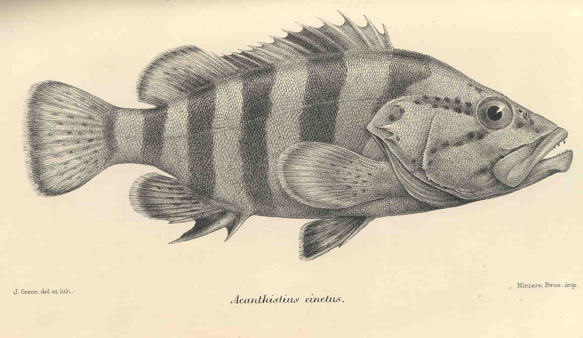 Acanthistius cinctus Subject: Acanthistius cinctus Tag: Fish